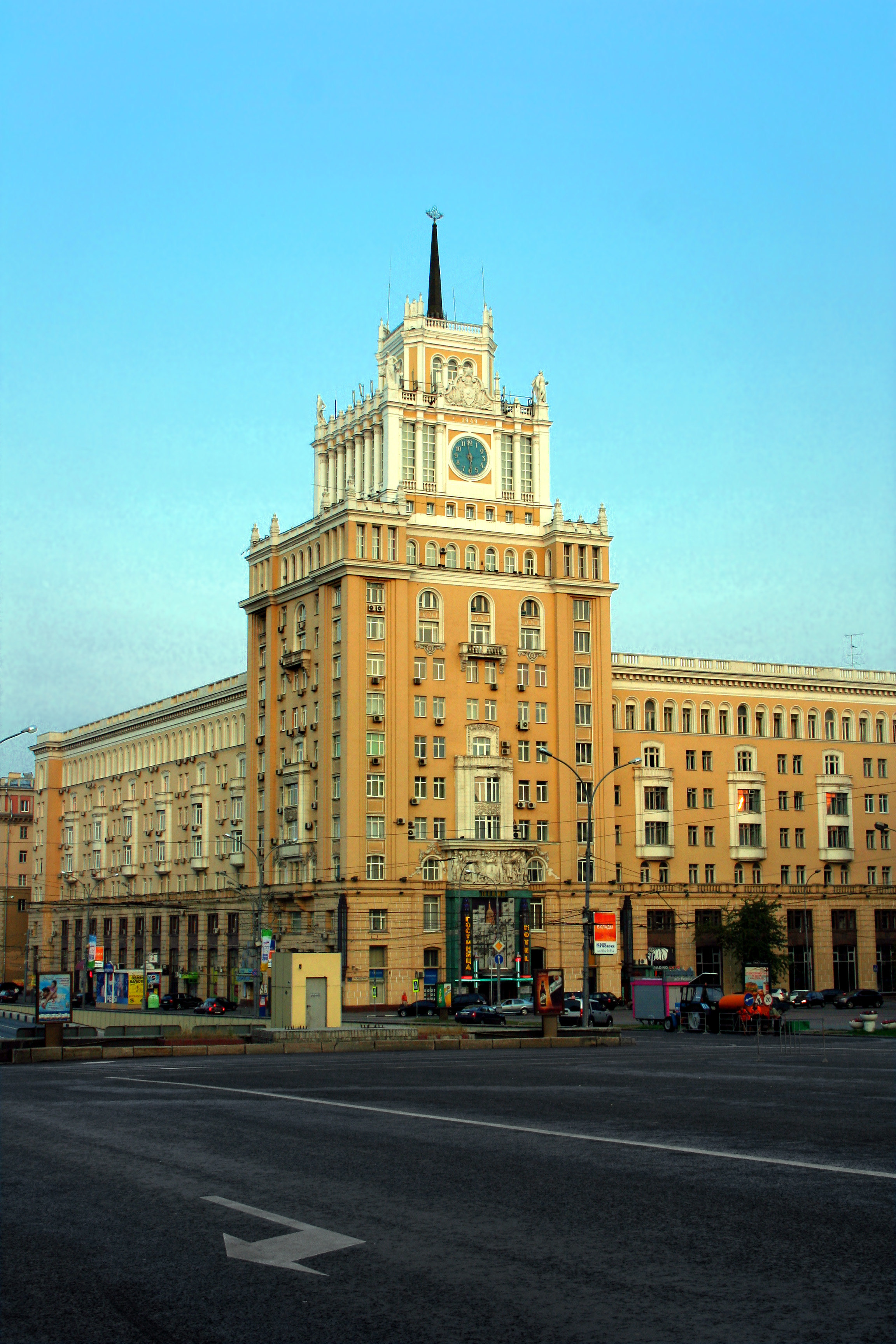 The Hotel Beijing in Moscow.